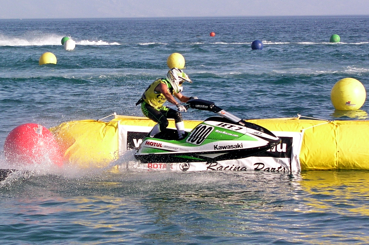 European Jet Ski Championship, Crikvenica, Croatia